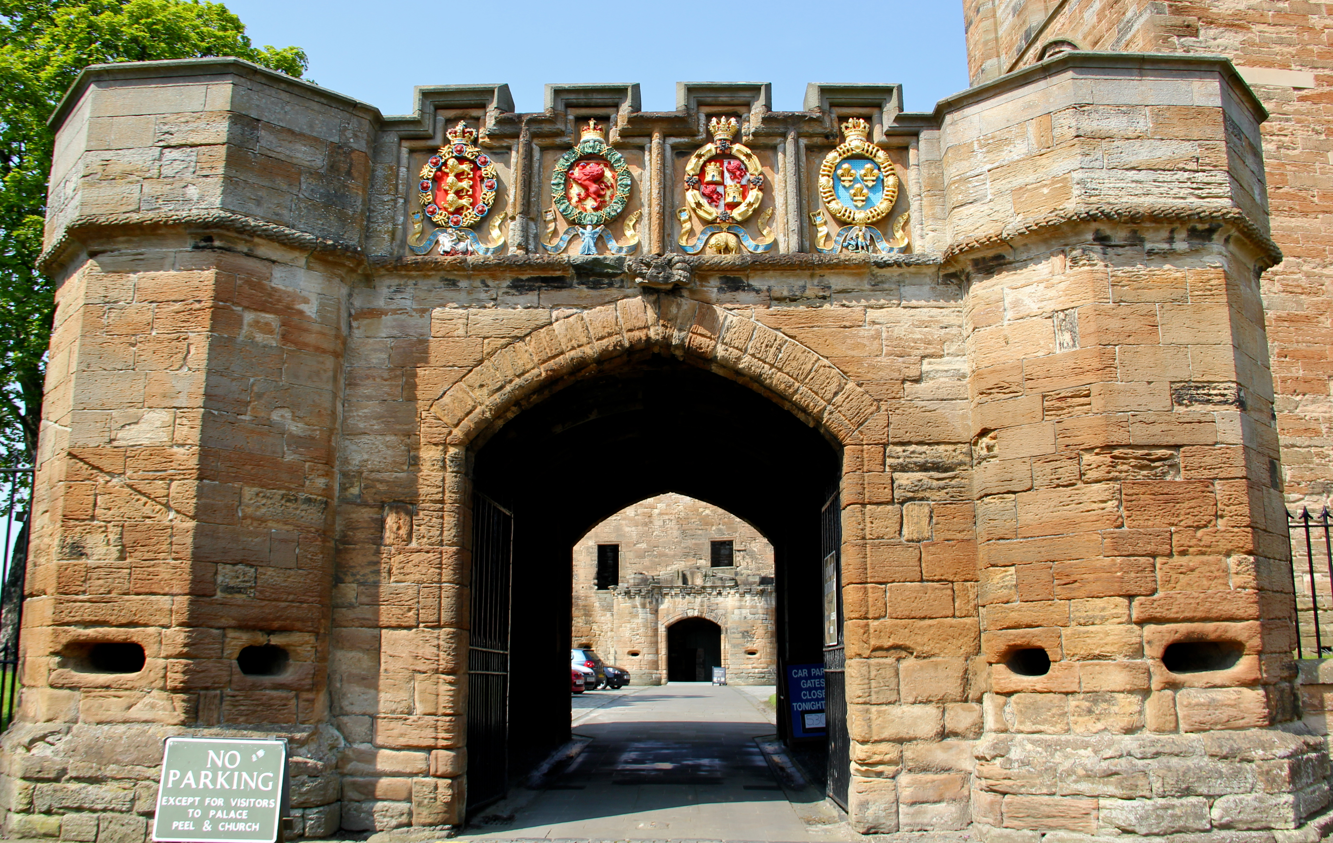 The fore entrance to Linlithgow Palace, built by King James V around 1533 gave access to the outer enclosure surrounding the palace. The four European orders of chivalry, to which James V belonged are engraved above the arch (from left to right) "The Order of the Garter", "The Order of Thistle", "The Order of the Golden Fleece" and "The Order of St. Michael". The stonework has been completely renewed in 1845.